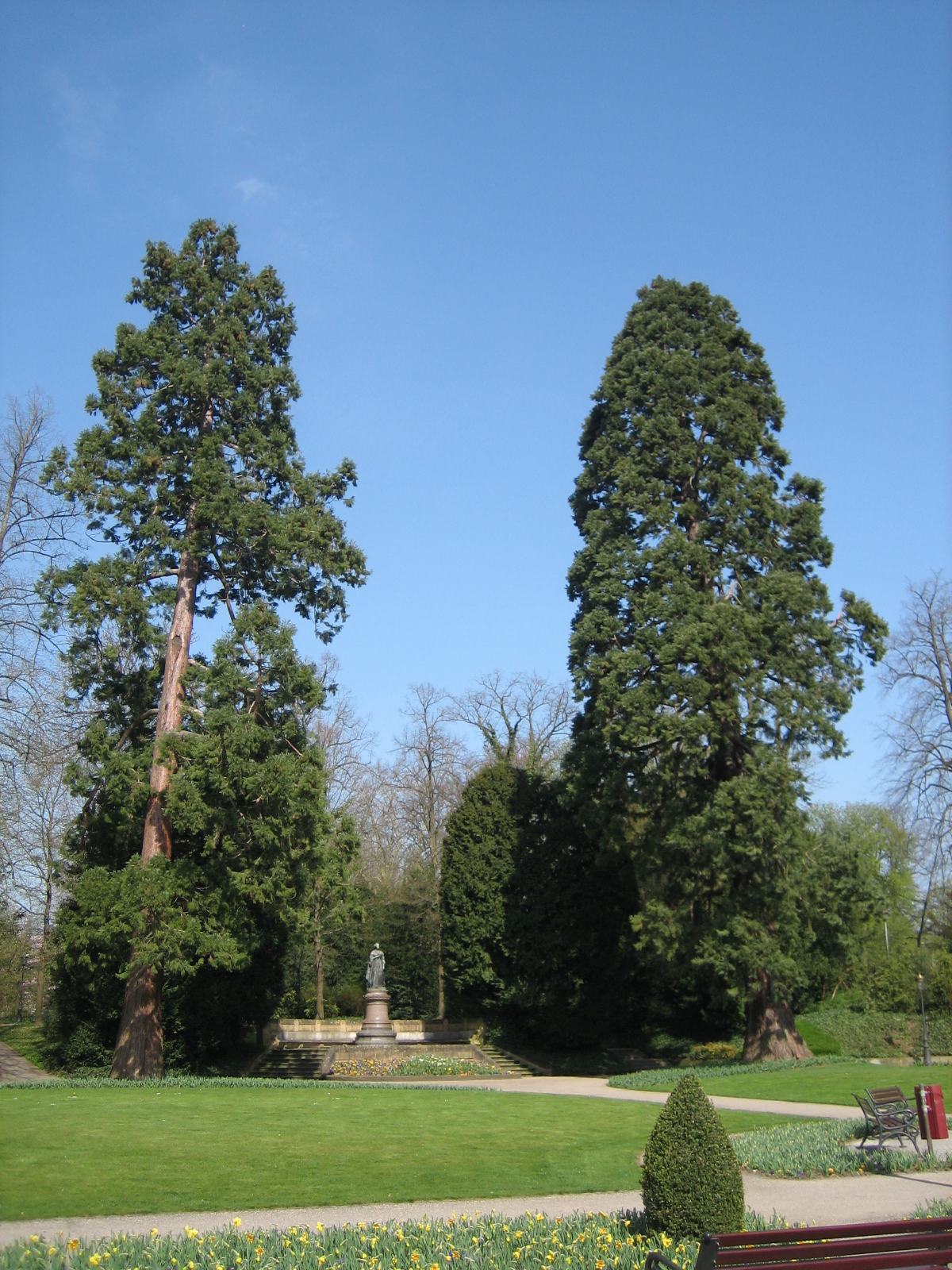 Giant Sequoia (Sequoiadendron giganteum) (native to California) — in Parc Amélie, Luxembourg City, Luxembourg.